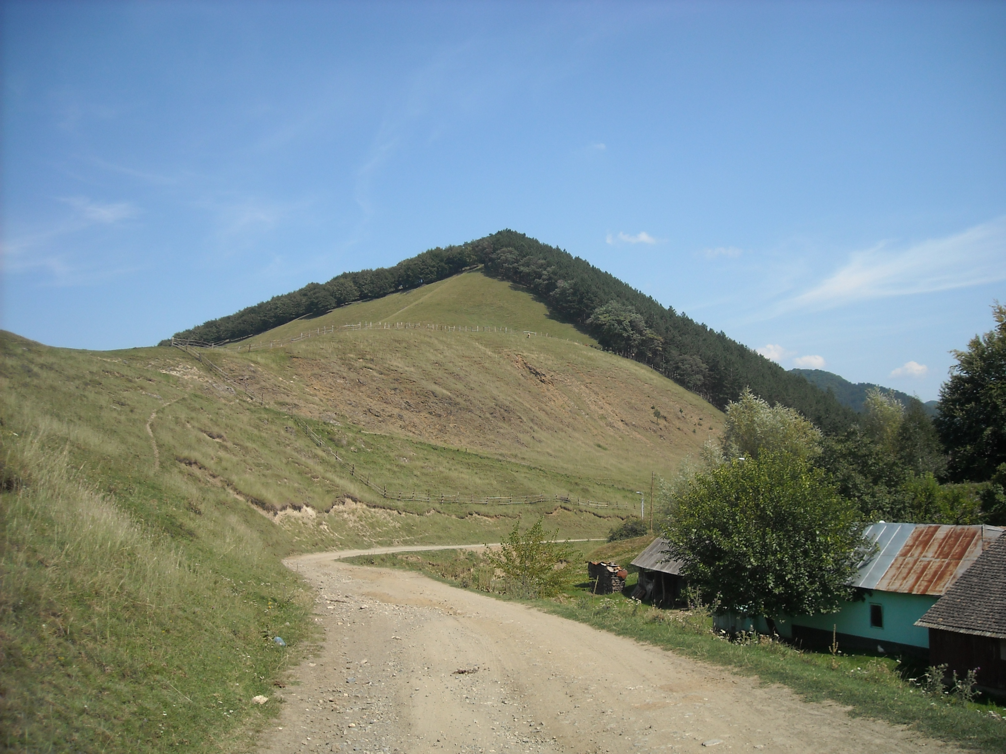 the castle hill (Cetăţuia) in Cugir, Romania